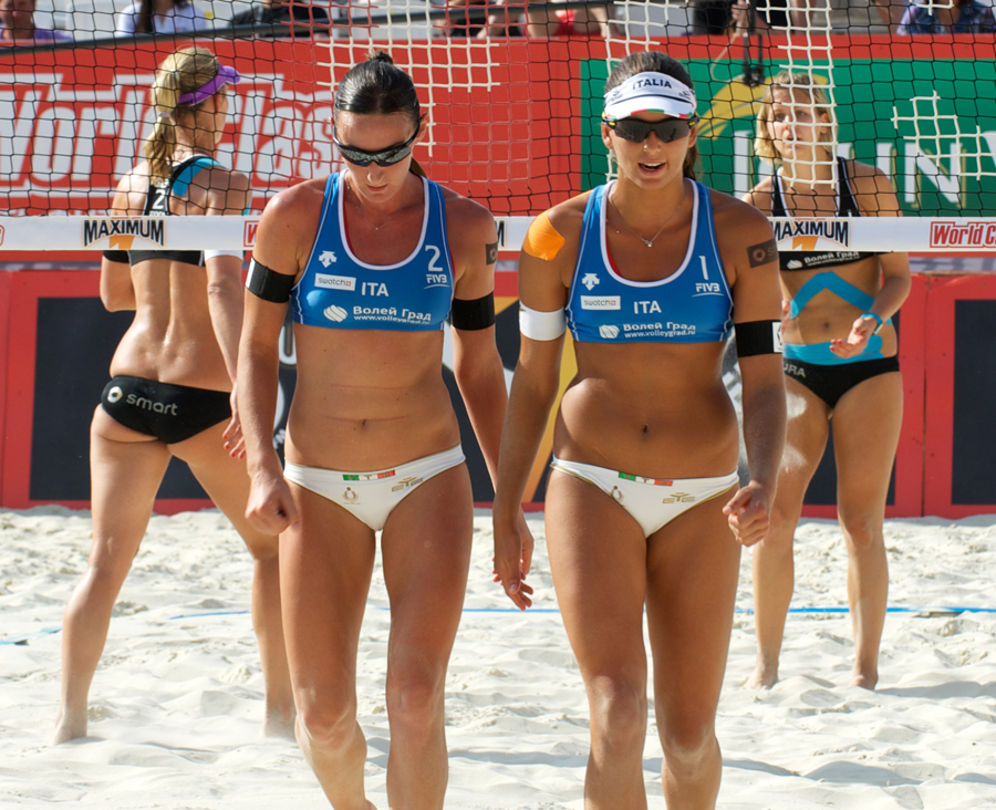 Grand Slam Moscow 2011